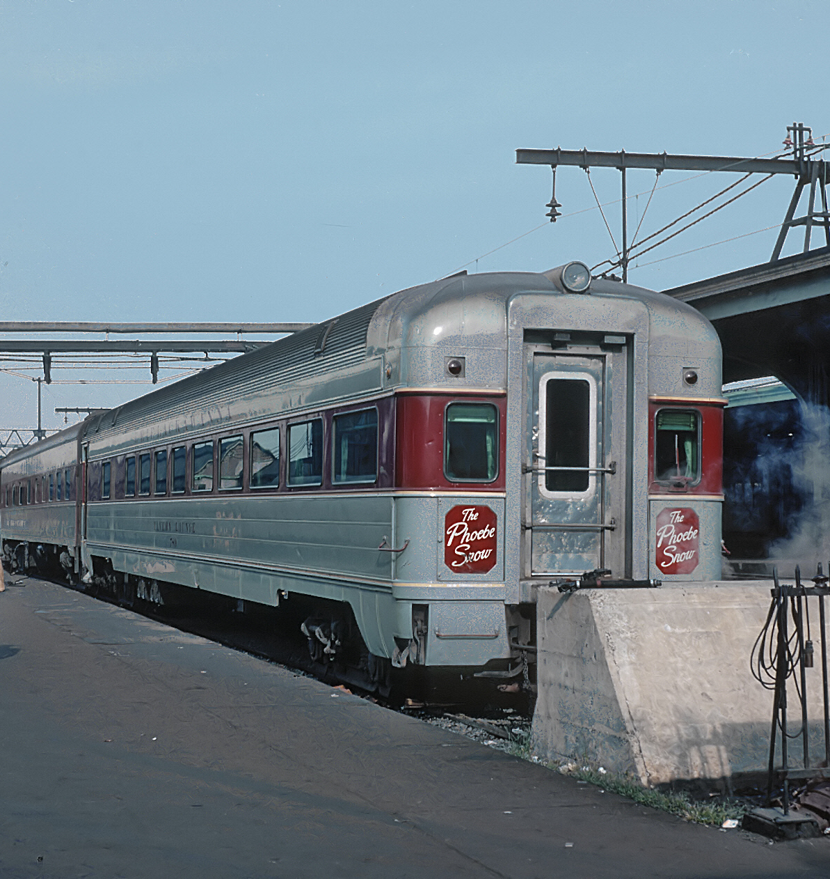 The Phoebe Snow on a service track on the southside of the terminal building A Roger Puta Photograph